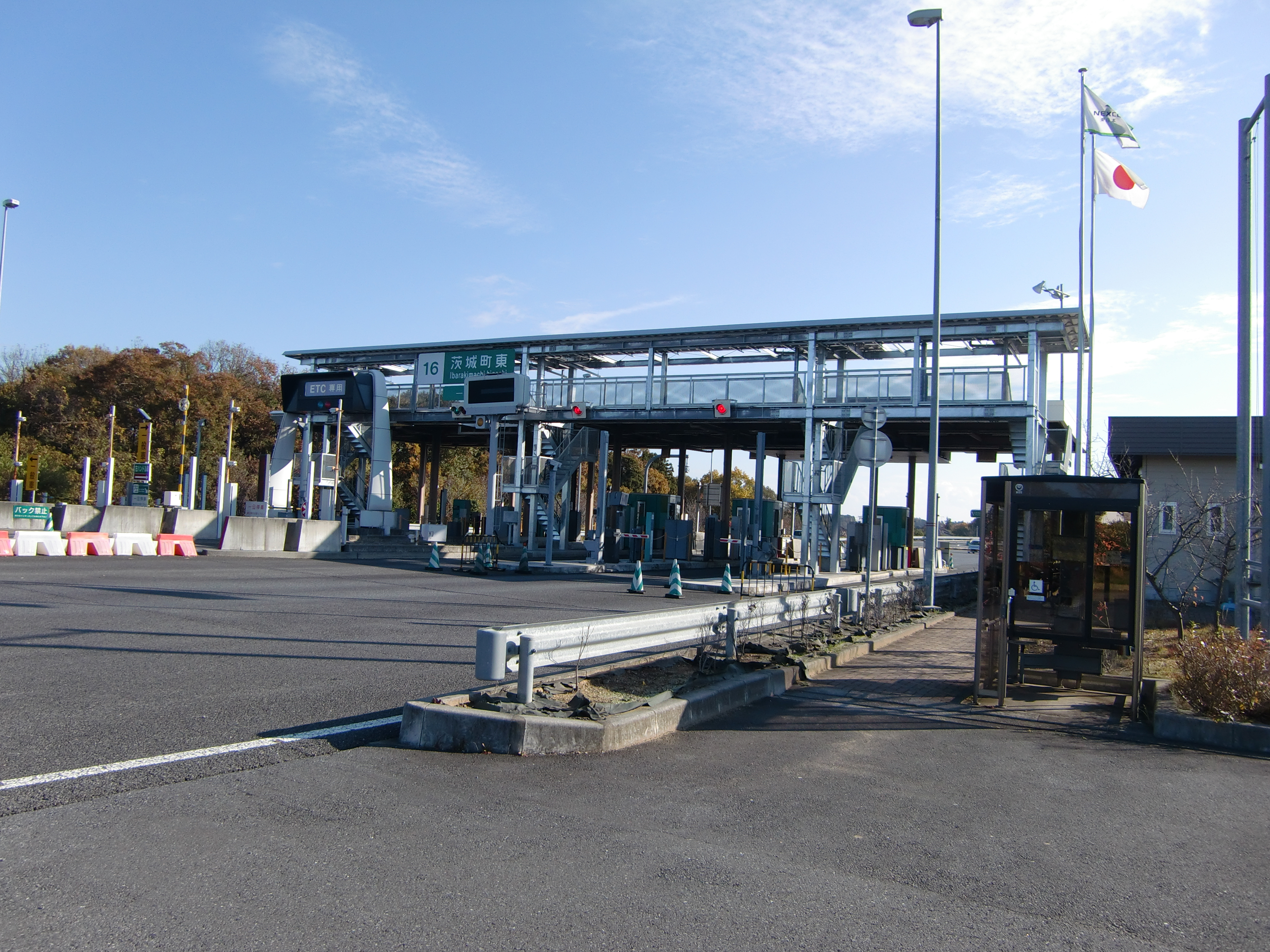 Ibarakimachi higashi Inter Change